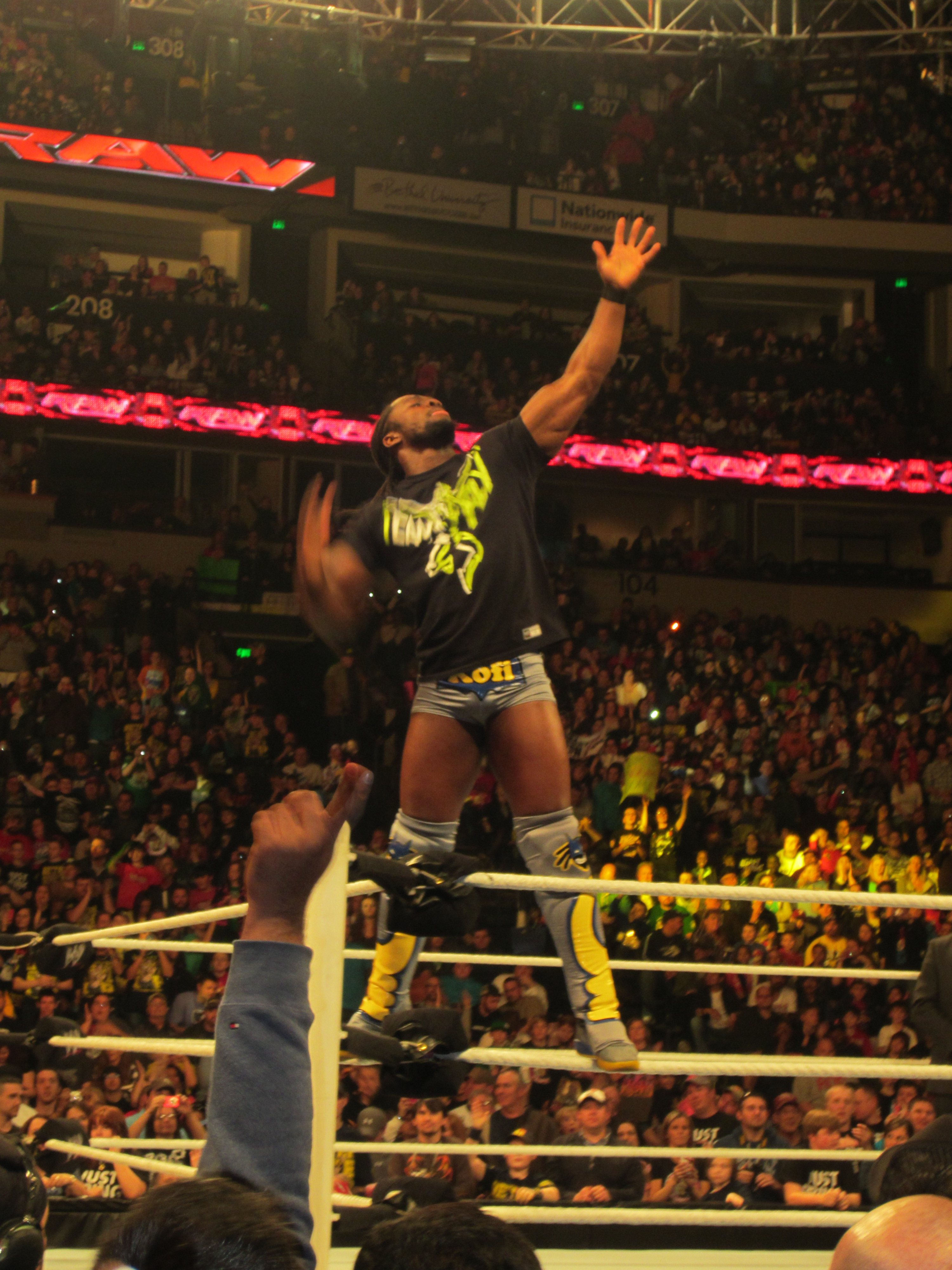 Kofi Kingston doing the Boom Clap